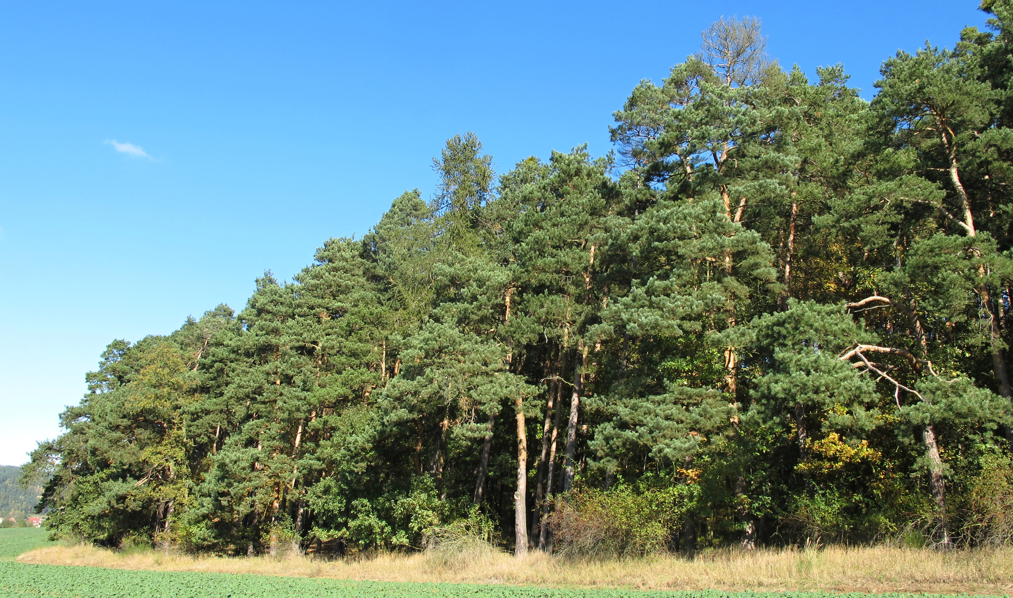 Natural monument Kosova Hora near municipality Kosova Hora, Příbram District in Czech Republic Project: Chráněná území.